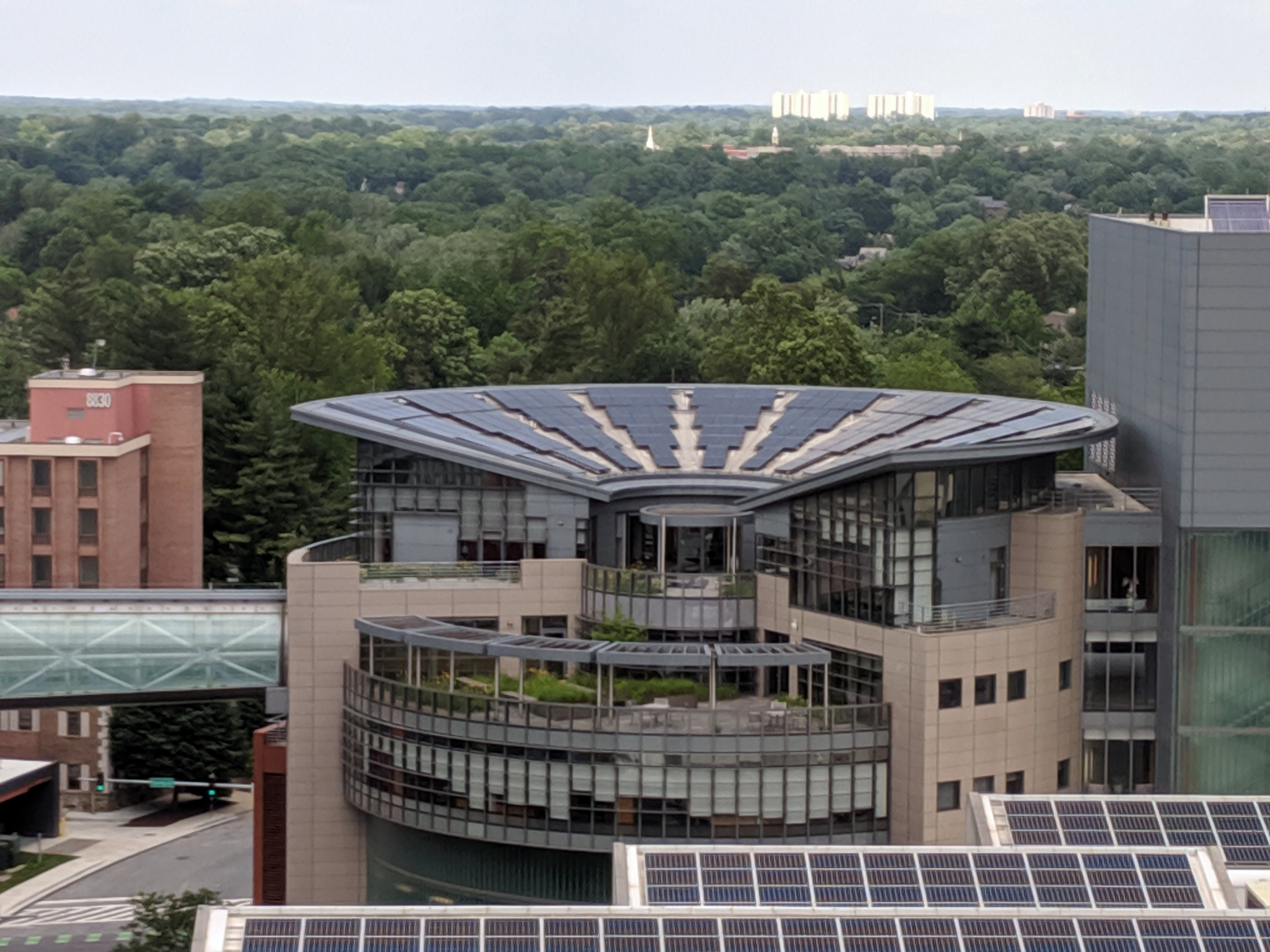 View of Silver Spring and beyond from 8630 Fenton Street in Downtown Silver Spring. The building with the plants and the bridge is the United Therapeutics Corporation. In the distance is Four Corners (two churches and Montgomery Blair High can be seen), White Oak (the two buildings are The Enclave Apartments), and Calverton (where the water tower is).